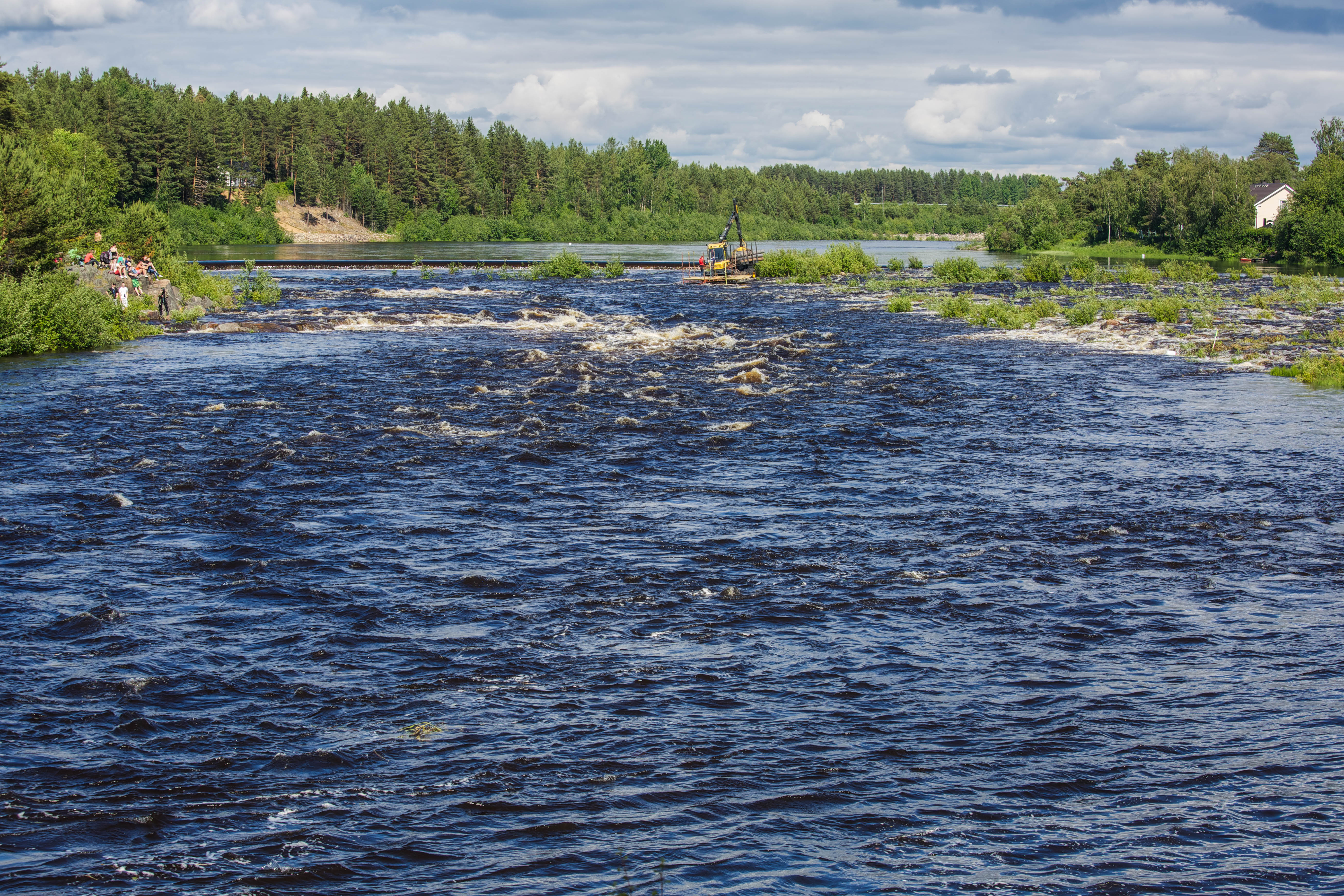 Raasakka Rapids Iijoki in Ii, Finland